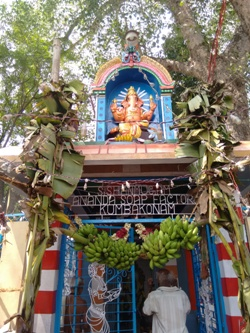 மணிக்கூண்டு சித்திவிநாயகர் கோயில் Clocktower Sitthivinayakar temple